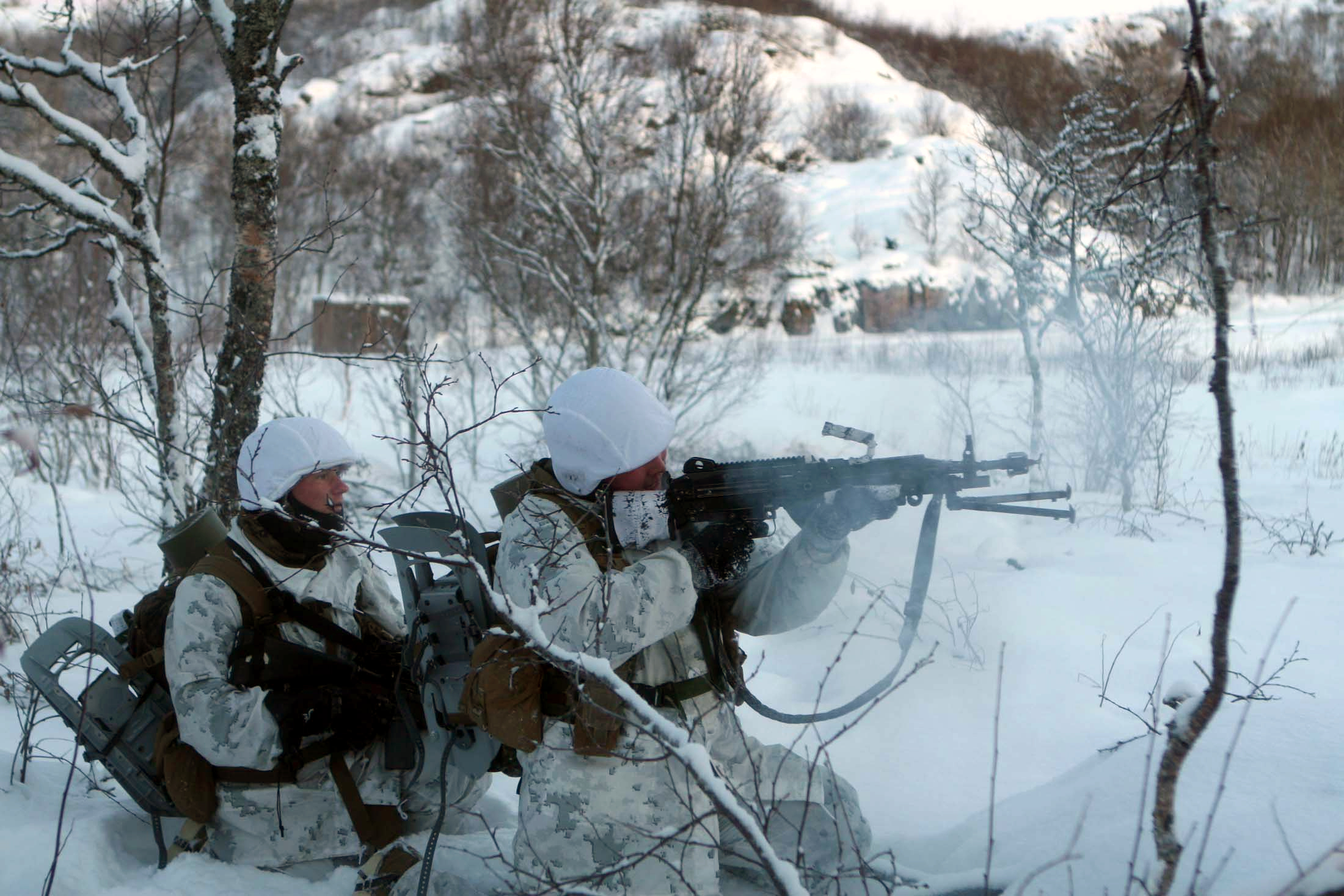 Marines with 2nd Battalion, 25th Regiment open fire upon a mock enemy force during a training raid March 3, 2010. After nearly a month above the Arctic Circle, Marines with the battalion are on their way home from Norway after completing Exercise Cold Response 2010.